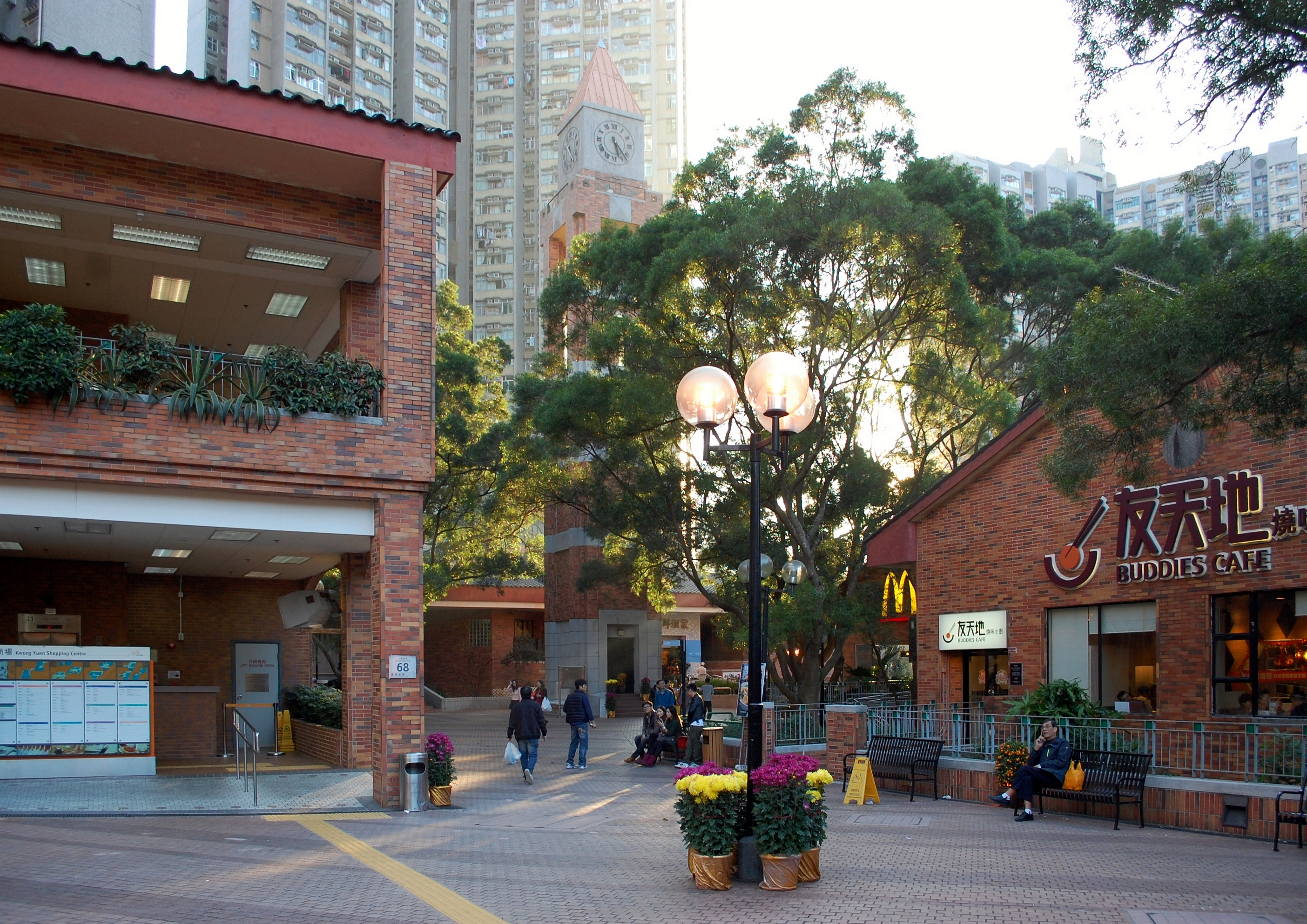 Public space and clock tower at Kwong Yuen Estate, Sha Tin. 中文（香港）: 廣源邨公共空間